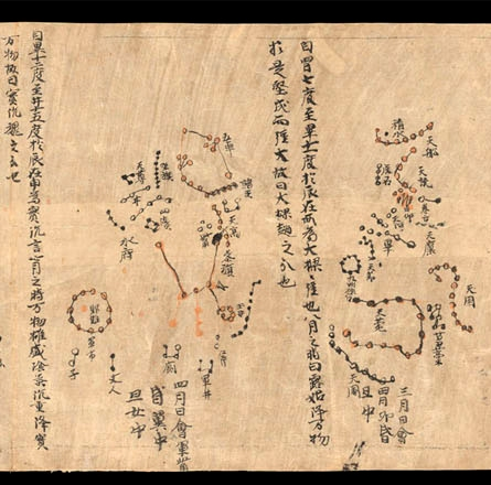 A segment of the Dunhuang star map from around AD 700 AD. British Library Or.8210/S.3326 showing the Third and Fourth lunar months, with the constellation of Orion to the left along with the stars Betelgeuse, Rigel, Bellatrix, Saiph , the three stars that compose Orion's belt - Alnitak, Alnilam and Mintaka, along with the Orion Nebula.